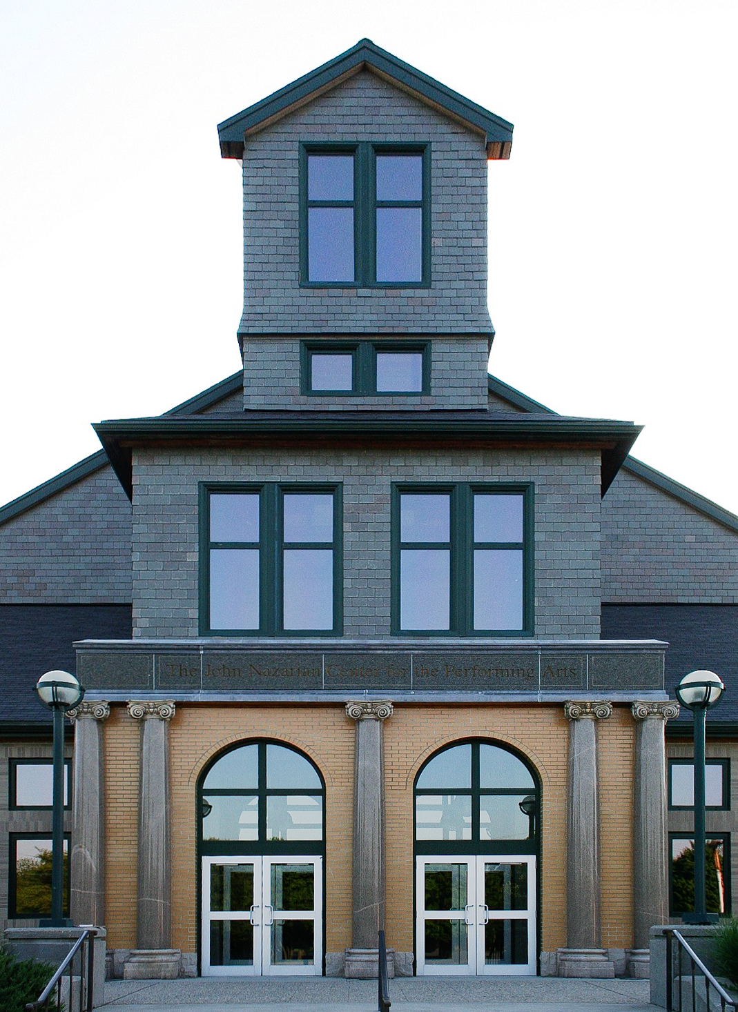 Photo of the John Nazarian Center for the Perfoming Arts, Rhode Island College, Providence RI